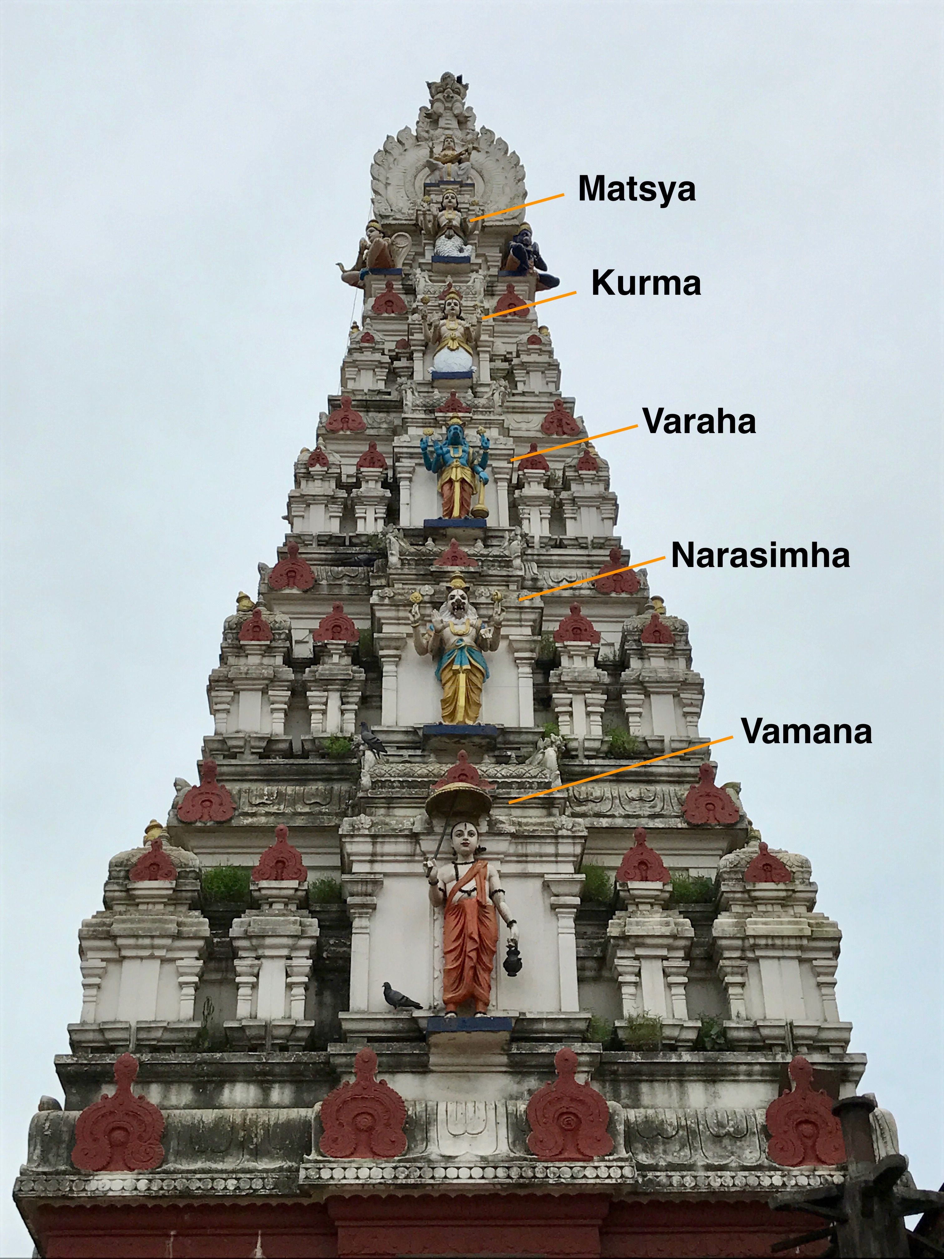 The Udupi Krishna temple spire. The temple is active and a monastery is colocated with it.